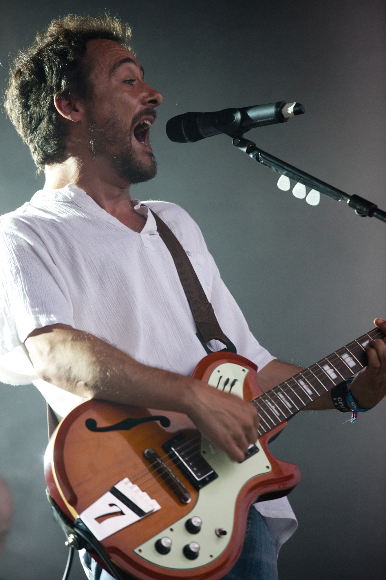 Love of Lesbian - Cruïlla 2010